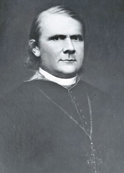 Photo of Bishop Andrew Byrne (1802–1862)